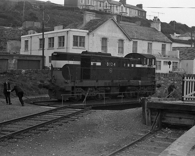 Train at Youghal. After working a freight train from Cork, one of CIE's 121 class diesel locomotives is turned on the turntable at the east end of Youghal station. The branch from Cobh Junction to Youghal closed on 2 June 1988, although part of... more